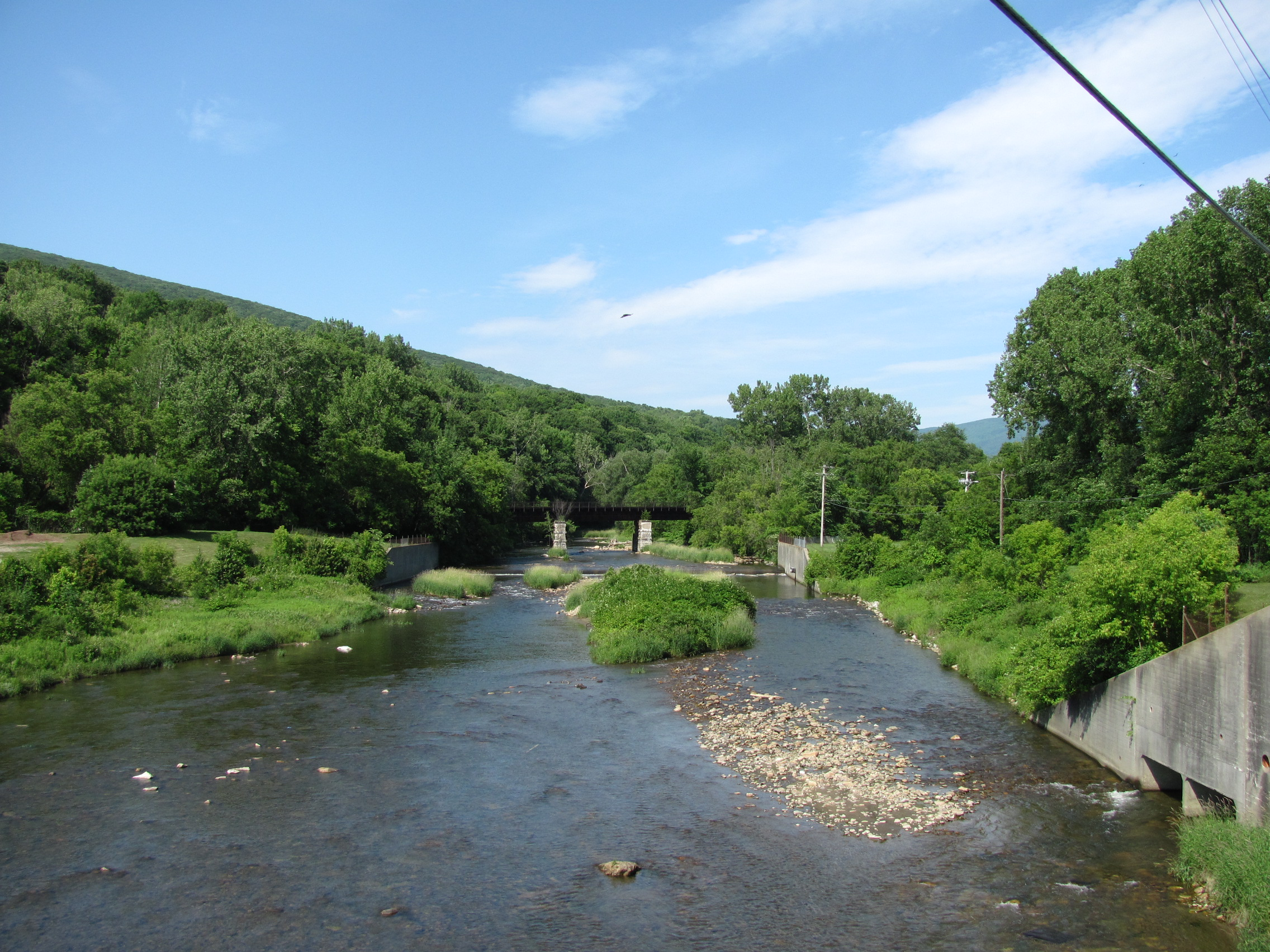 Hoosic River upstream from West Main St, North Adams Massachusetts, June 2010